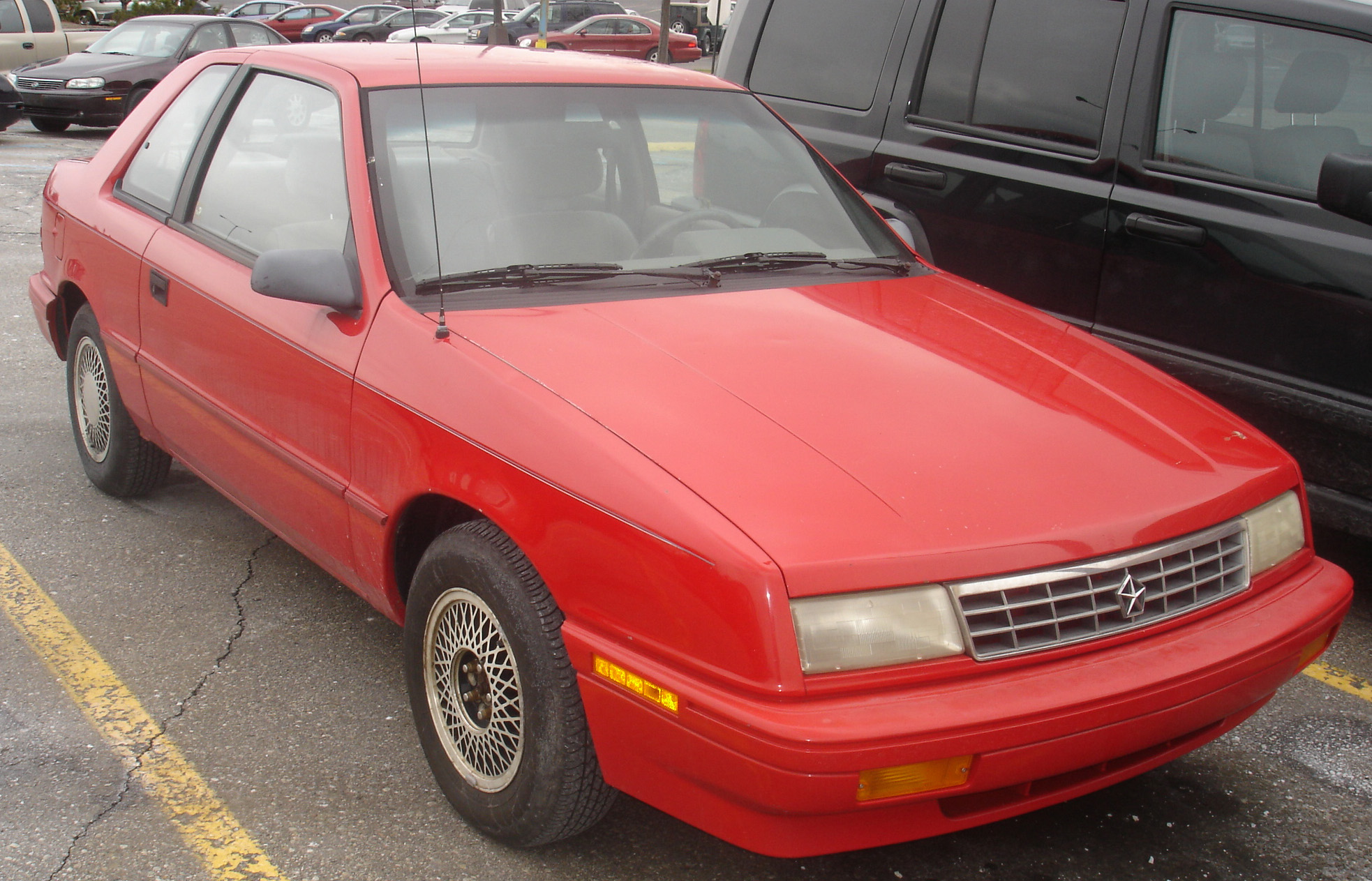 1994 Plymouth Sundance